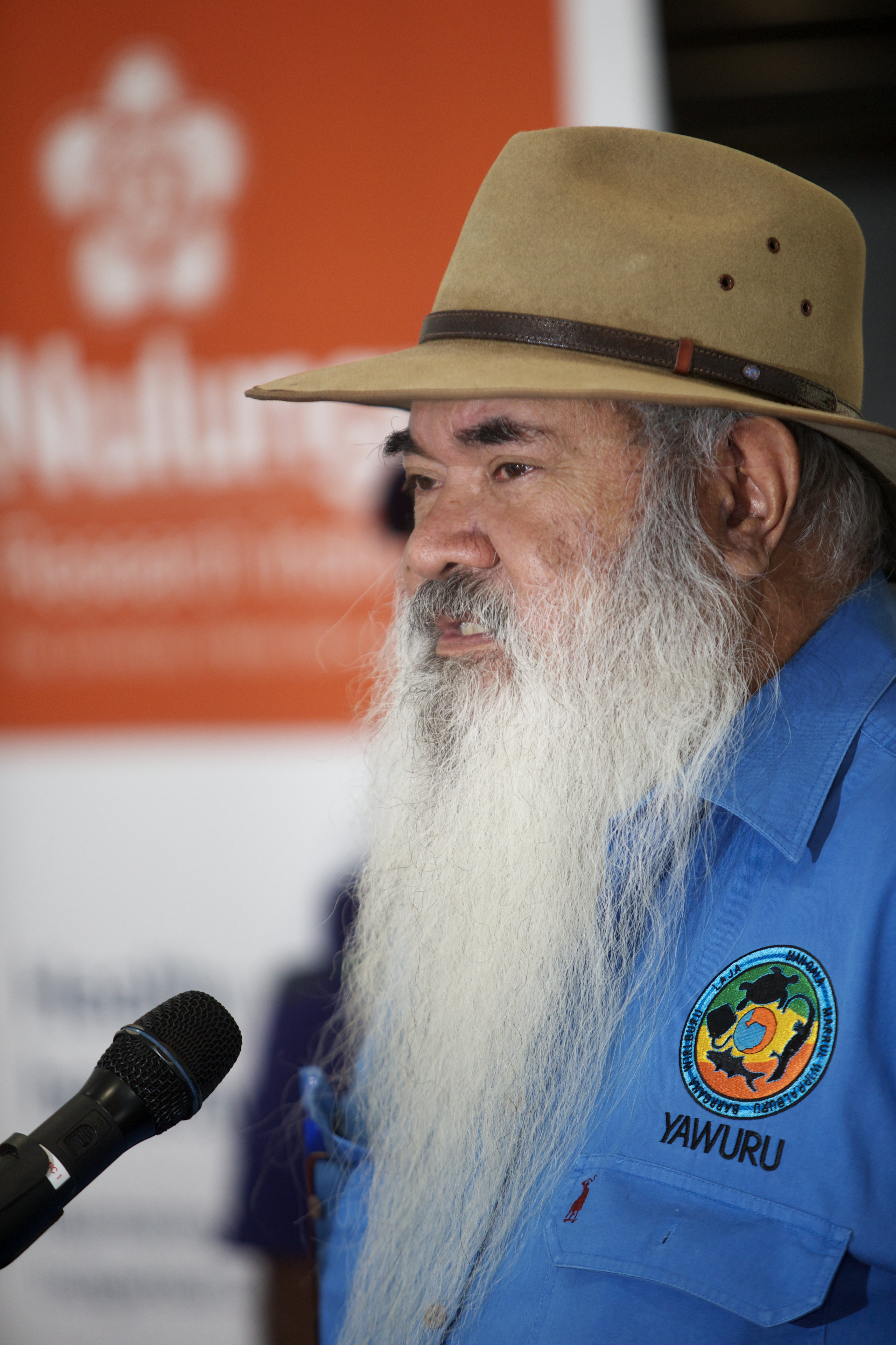 Patrick Dodson at the 2015 Indigenous Leaders Roundtable Broome.